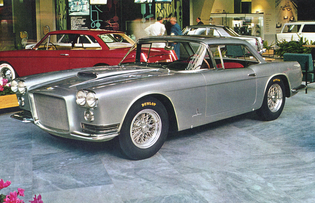 We see the 1959 Ferrari 400 Superamerica Coupe (Agnelli) s/n 1517SA at the 1959 Turin autoshow (Salone dell'Automobile Torino) which lasted 31 Ottobre to 11 Novembre 1959. This car was designed by Pinin Farina and first owned by Gianni Agnelli.